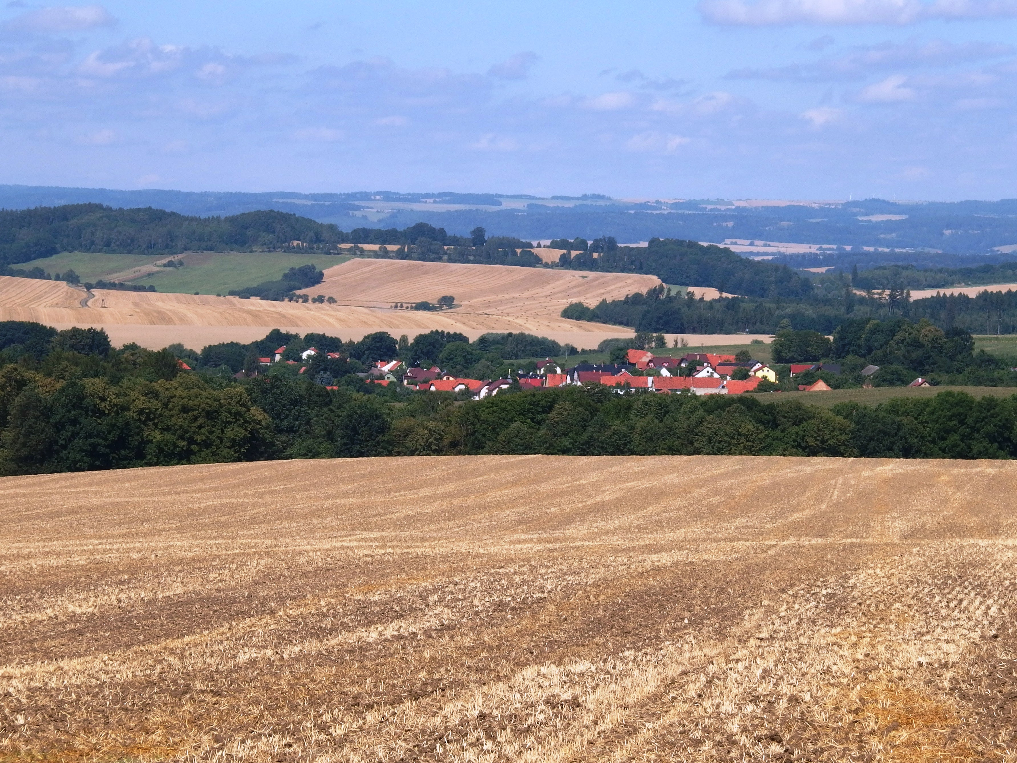 Starý Jičín, Nový Jičín District, part Palačov.